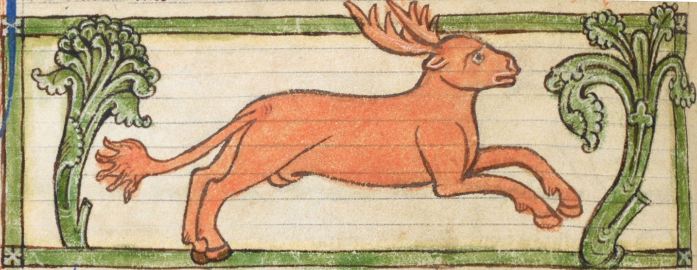 Parandrus - Bestiary Harley MS 3244, ff 36r-71v